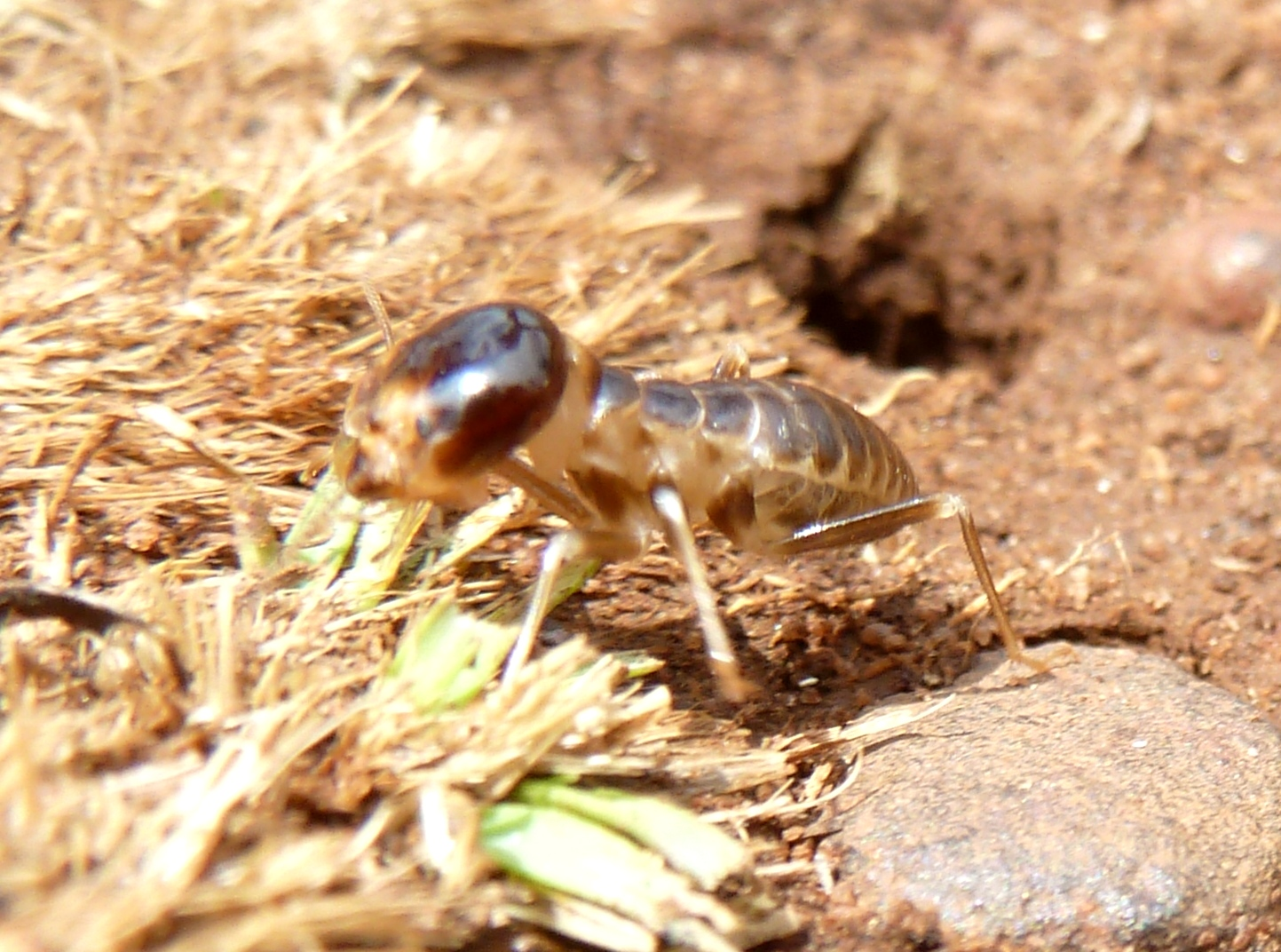 Harvester termite of the worker cast at the nest entrance, at Schanskop, Pretoria